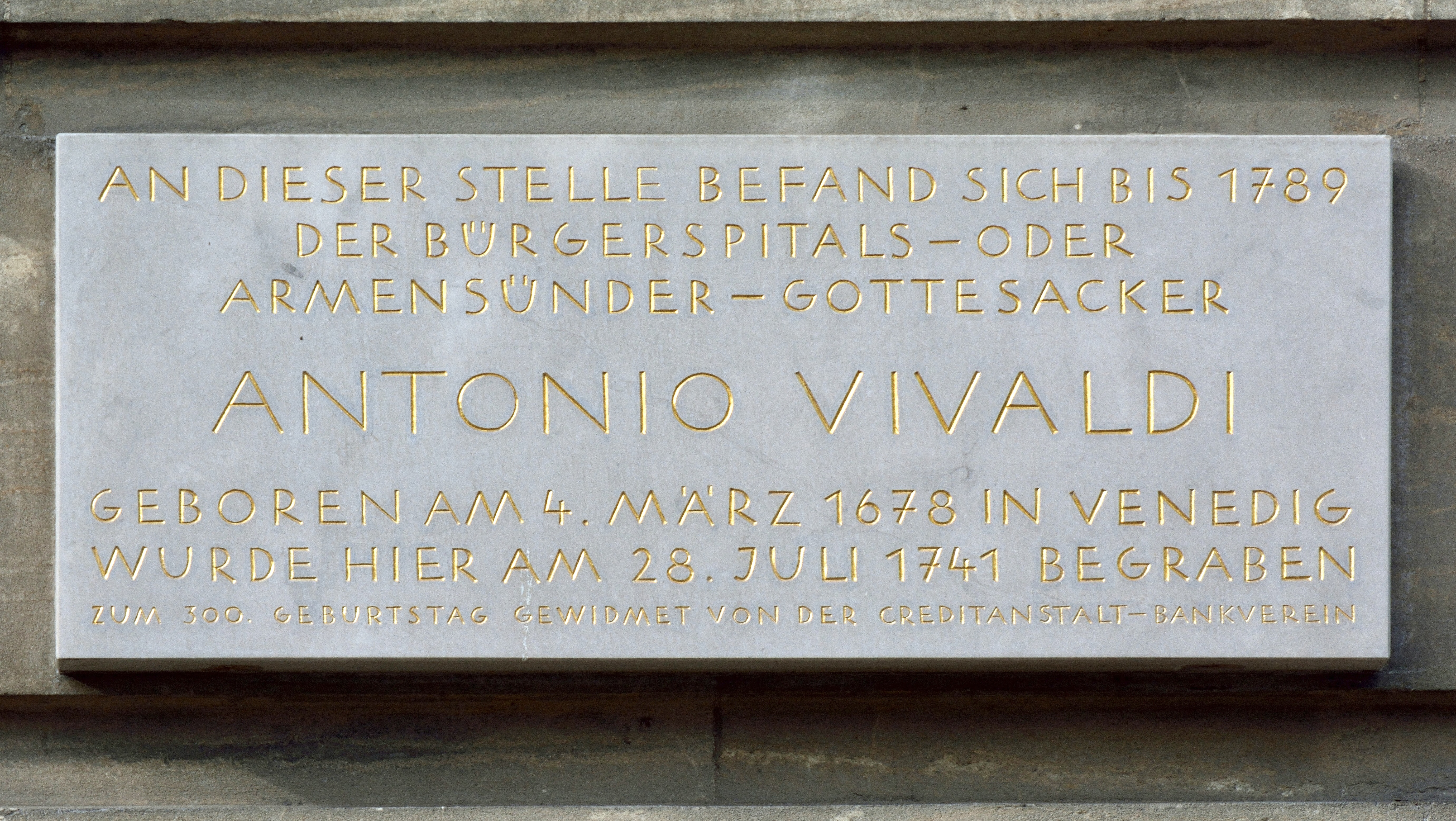 Plaque at Vienna University of Technology, commemorating the burial plot of Antonio Vivaldi, 4th district of Vienna.